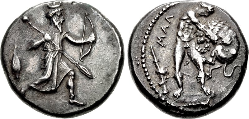 CILICIA, Mallos. Circa 390-385 BC. AR Stater (21.5mm, 10.41 g, 9h). Persian king, wearing kidaris and kandys, in kneeling-running stance right, holding spear in right hand, bow in left; barley grain to left / Herakles wrestling with the Nemean Lion; MAΛ and club to left.